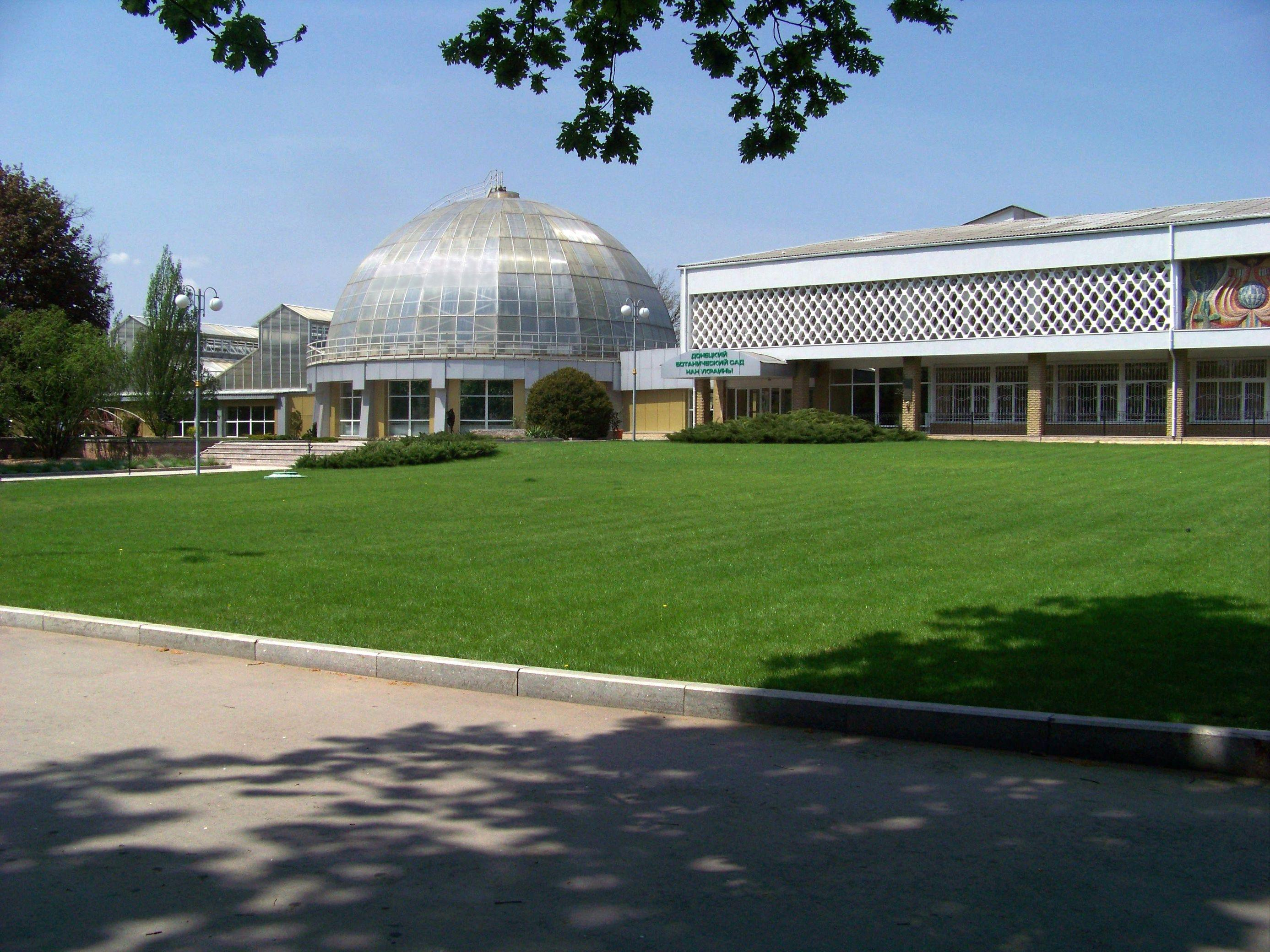 Donetsk botanical garden.